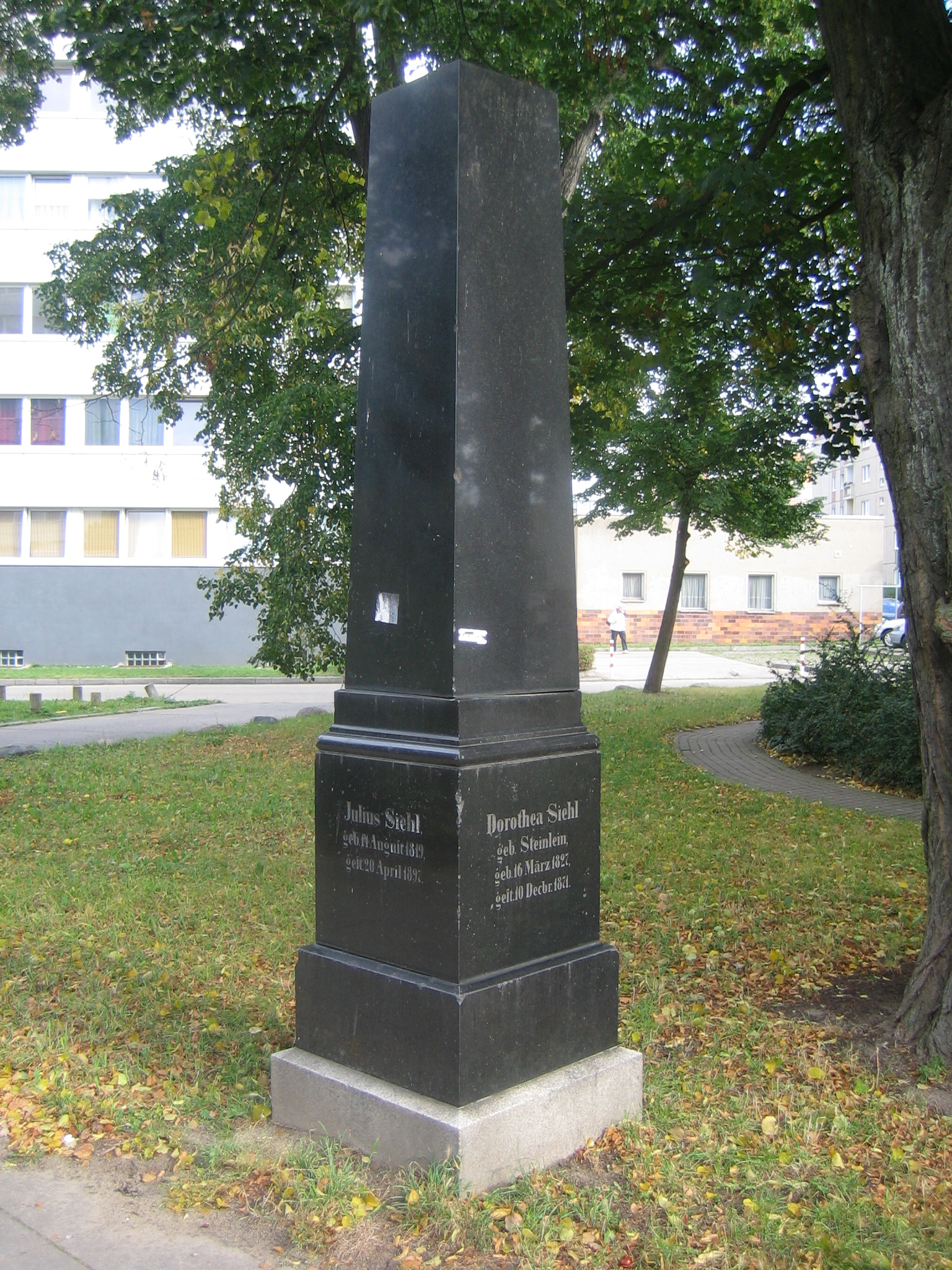 Grabobelisk Siehl, Buttelstraße, Neubrandenburg, Mecklenburg-Vorpommern